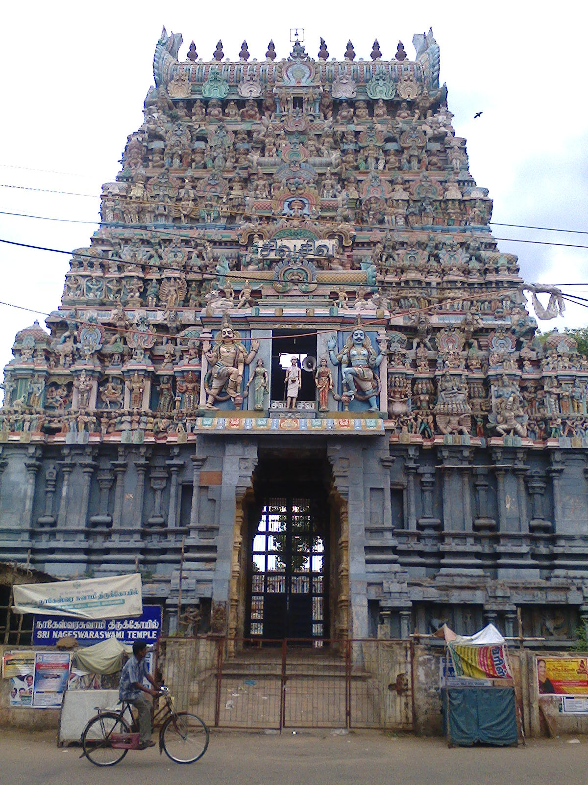 Kumbakonam Nagesvarar temple gopuram கும்பகோணம் நாகேஸ்வரர் கோயில் கோபுரம்